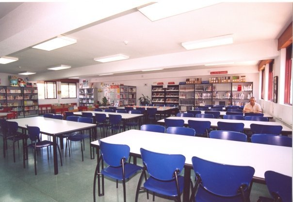 Biblioteca Municipal de Miraltormes